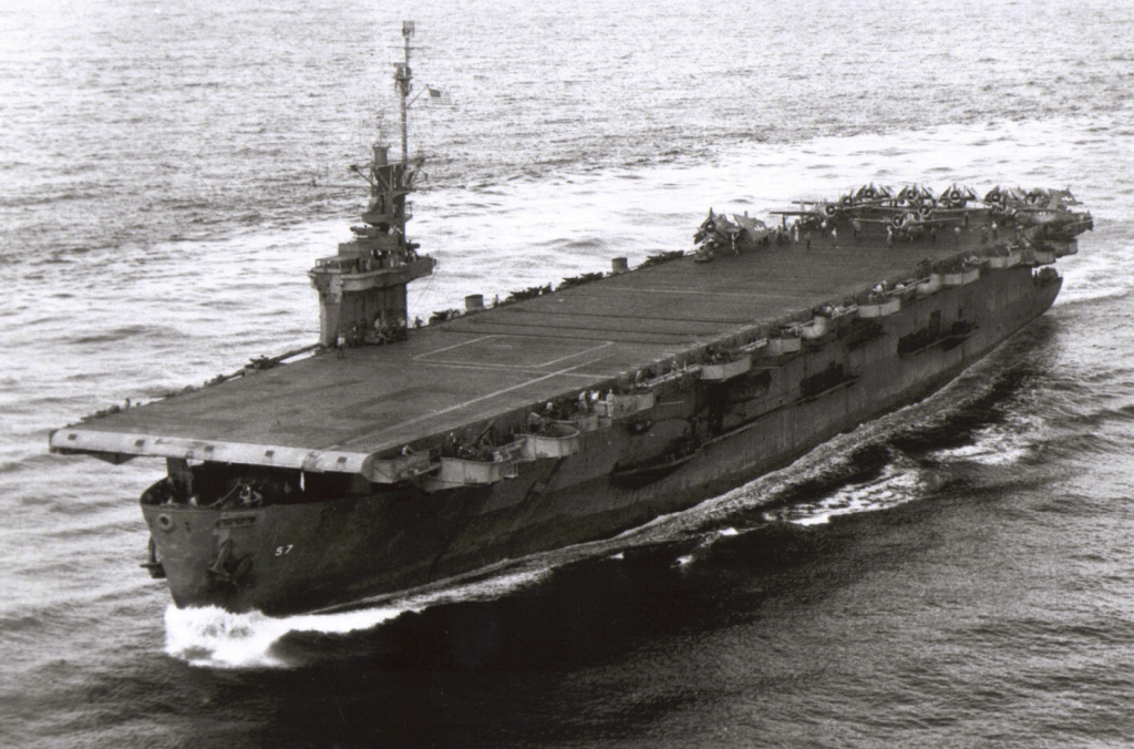 USS Coral Sea (CVE-57) underway in 1943–1944 with VC-33, consisting of Avenger torpedo-bombers and Wildcat fighters, aboard. Location unknown (USN photo.)